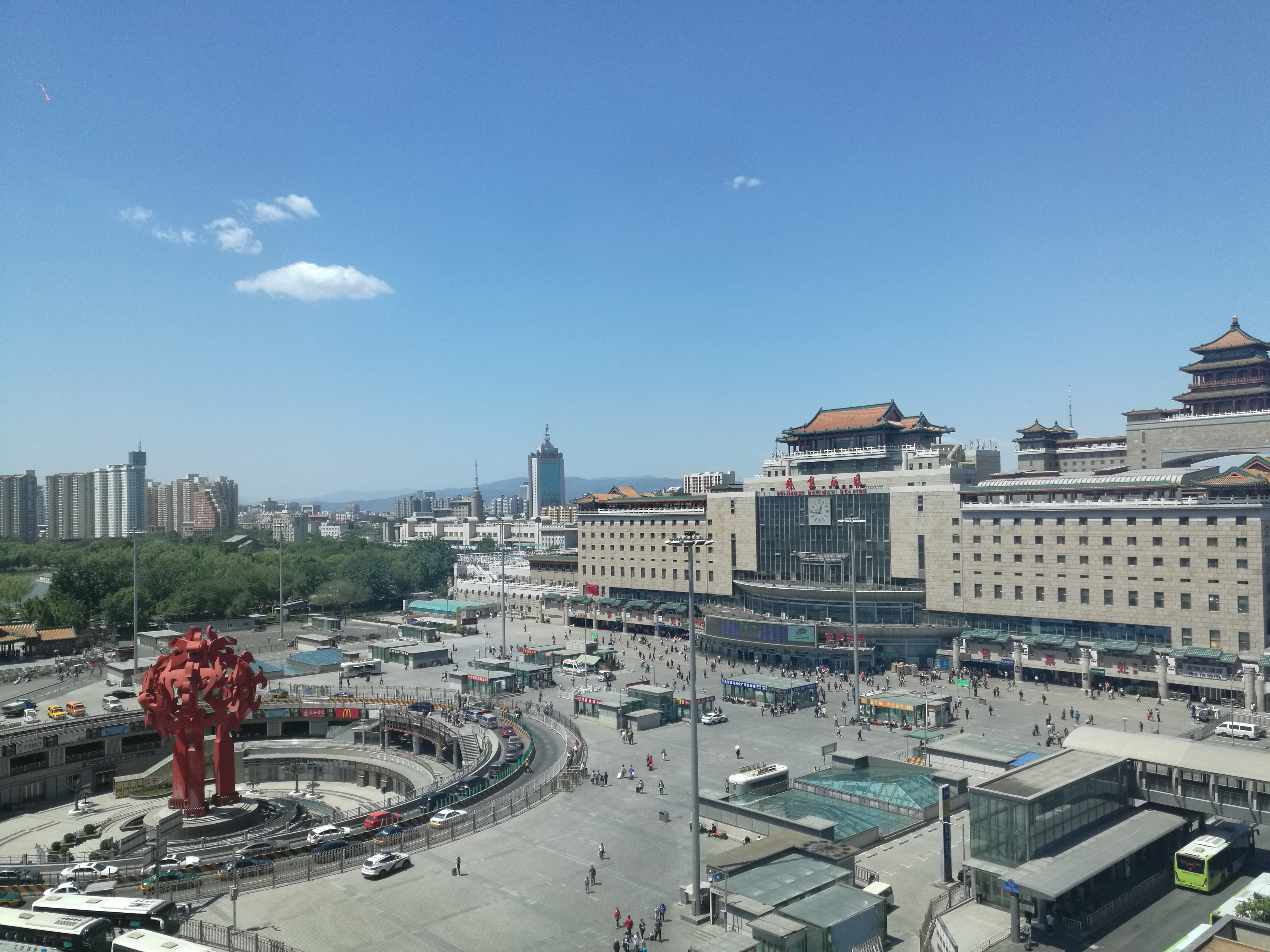 2017 at Beijing West Railway Station